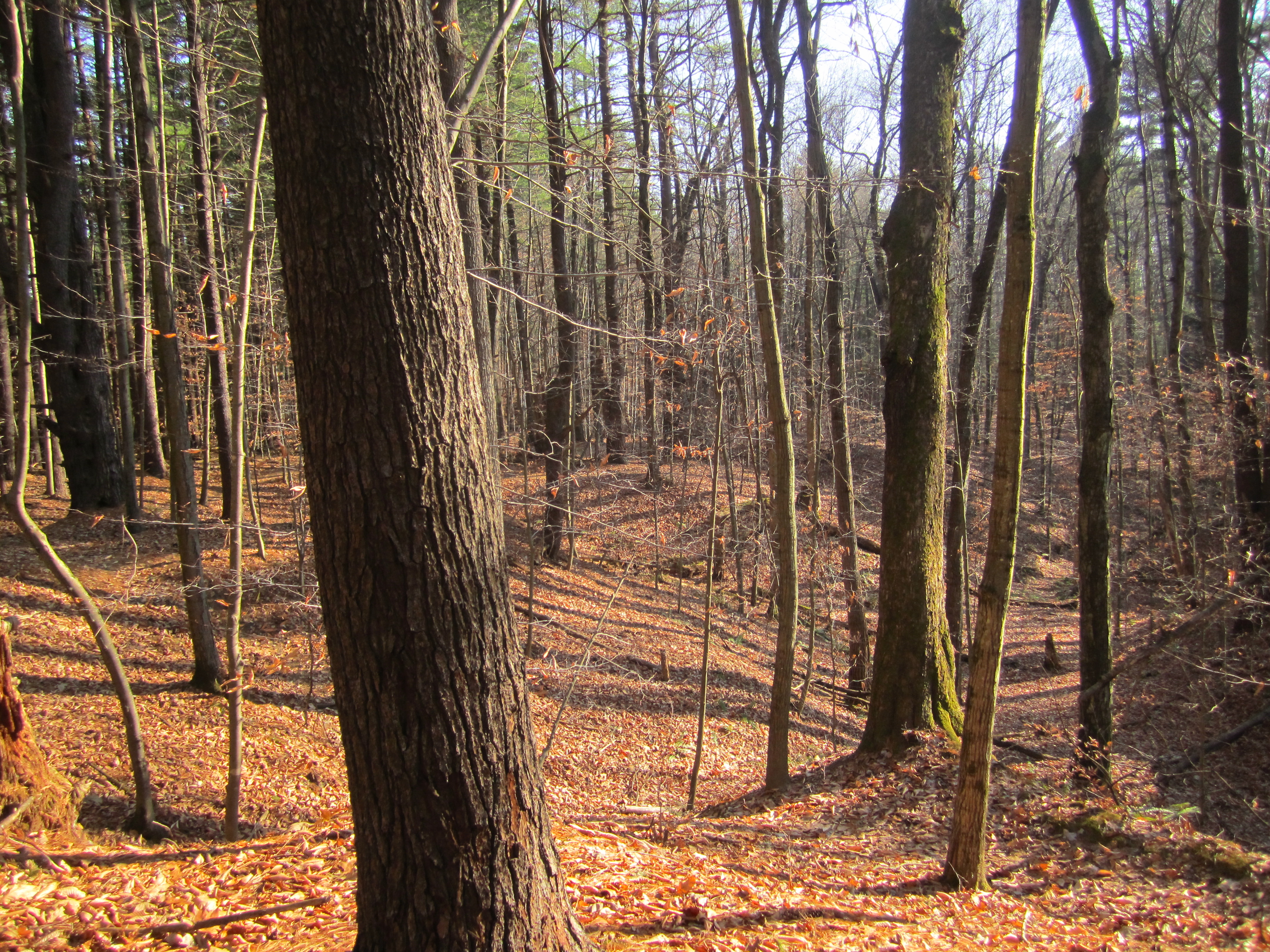 "100 Acre Wood" nature area, Luther Forest Technology Campus, Malta NY